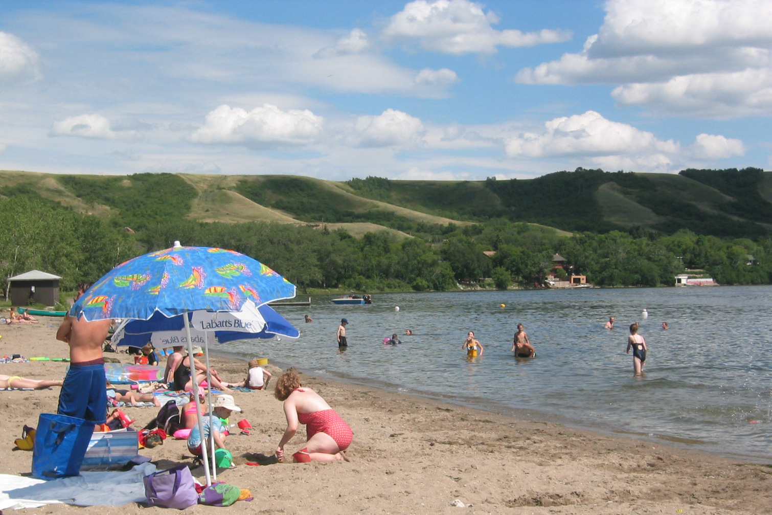 Katepwa beach on sunny day, in Katepwa, Saskatchewan, Canada.